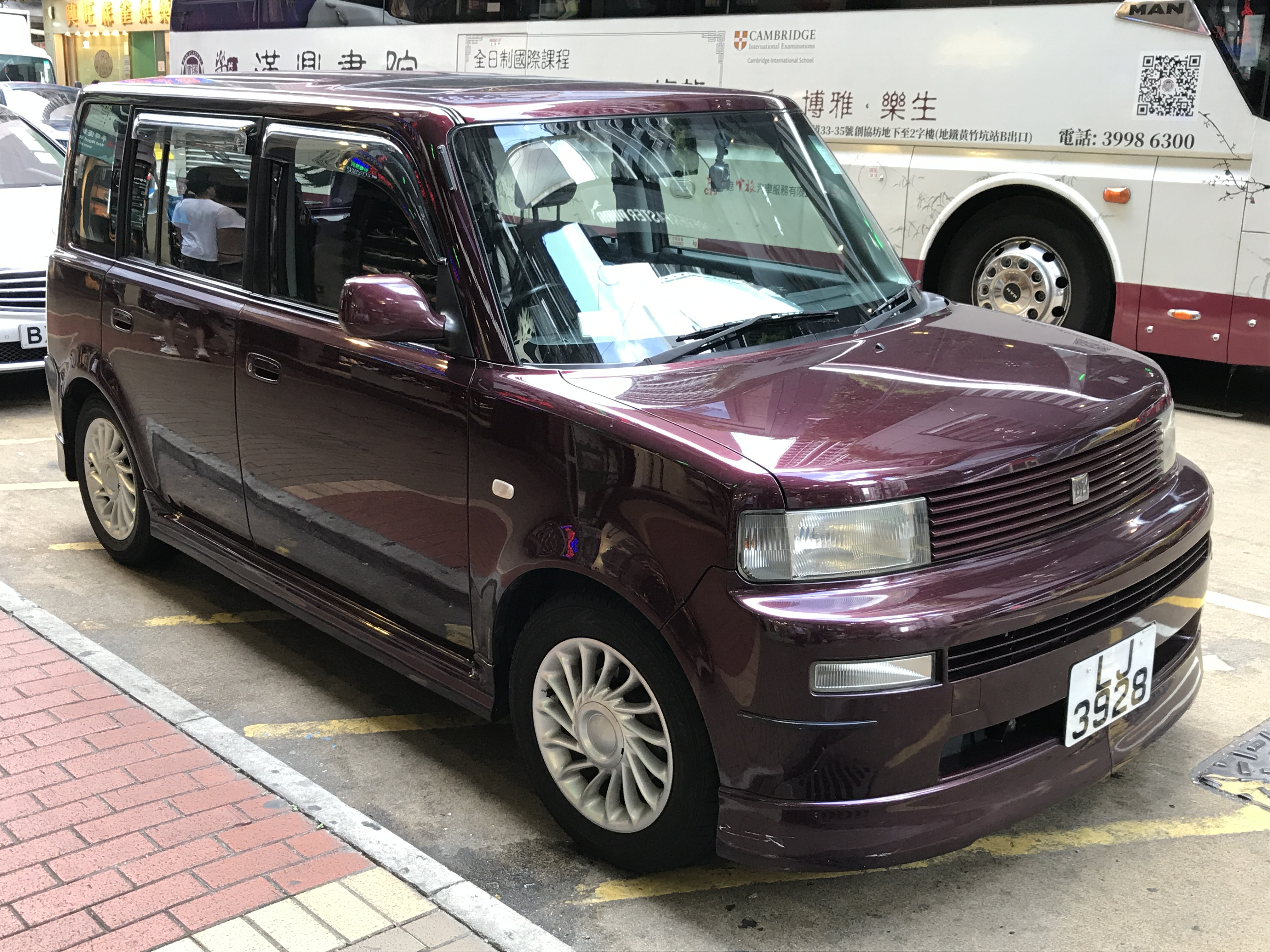 Front side of a Toyota bB. The vehicle is not officially sold in Hong Kong.